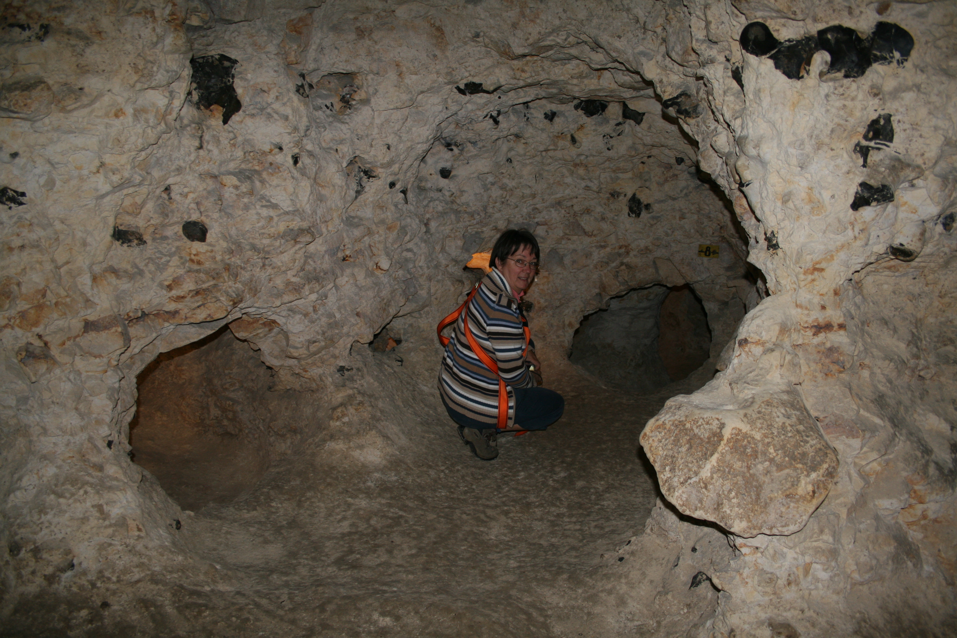 Spiennes (Belgium), neolithic mines of flint of the "Camp à Caillaux".